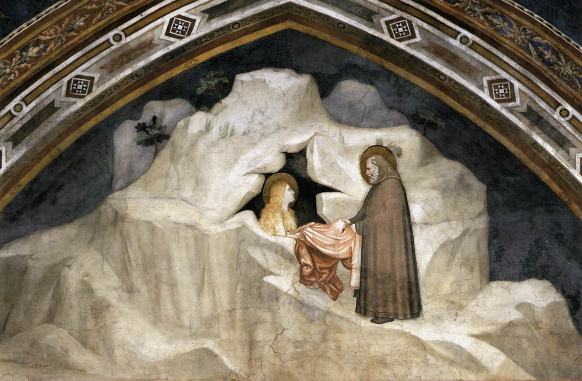 Scenes from the Life of Mary Magdalene: The Hermit Zosimus Giving a Cloak to Magdalene, fresco from Magdalene Chapel, Lower Church, San Francesco, Assisi. (The subject, cloak and even the name of old hermet was taken to Magdalene's history from "Life of St. Mary of Egypt" St. Mary Magdalene is not the same person as St. Mary of Egypt. Magdalene was a contemporary of Jesus. Mary of Egypt was a desert hermit who lived in Egypt 500 year later. This is a depiction of St. Mary of Egypt and St. Zosimas, who met her while traveling in the desert.